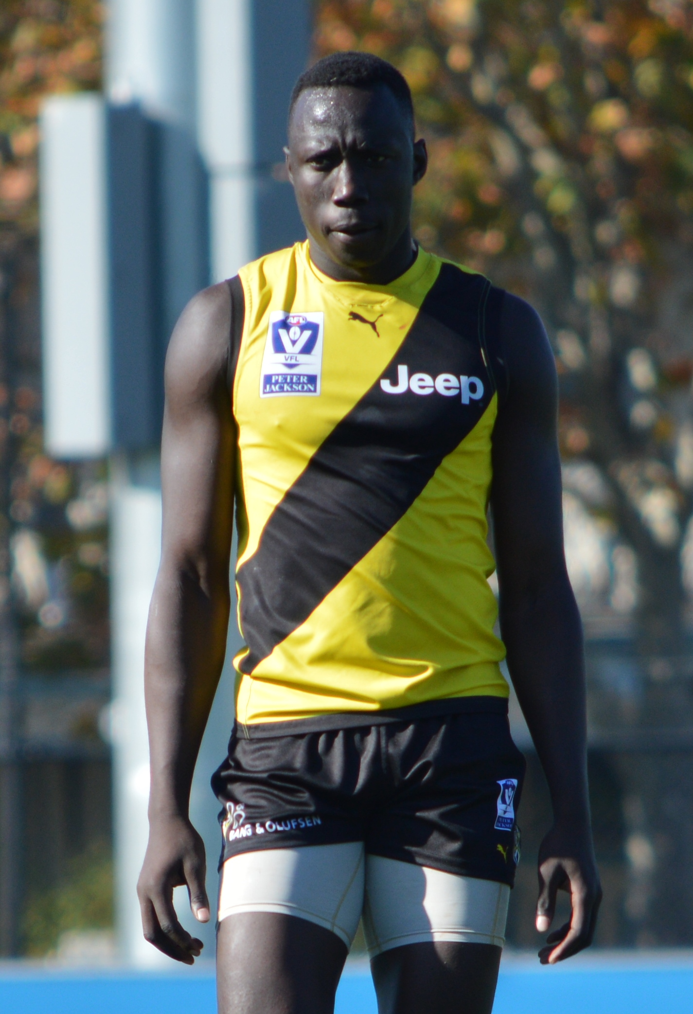 Mabior Chol during the round 8, 2018 VFL match between Richmond and Coburg at Punt Road Oval.